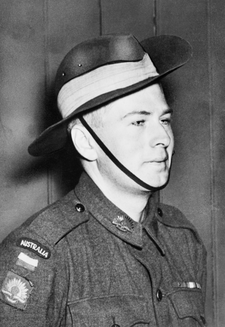 Photograph of Frank John Partridge VC, Australian Army, in Sydney NSW.